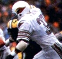 St. Louis Cardinals' safety Ken Greene pictured in a defensive play against the Green Bay Packers in the 1982 NFC First Round Playoff Game on January 8, 1983.